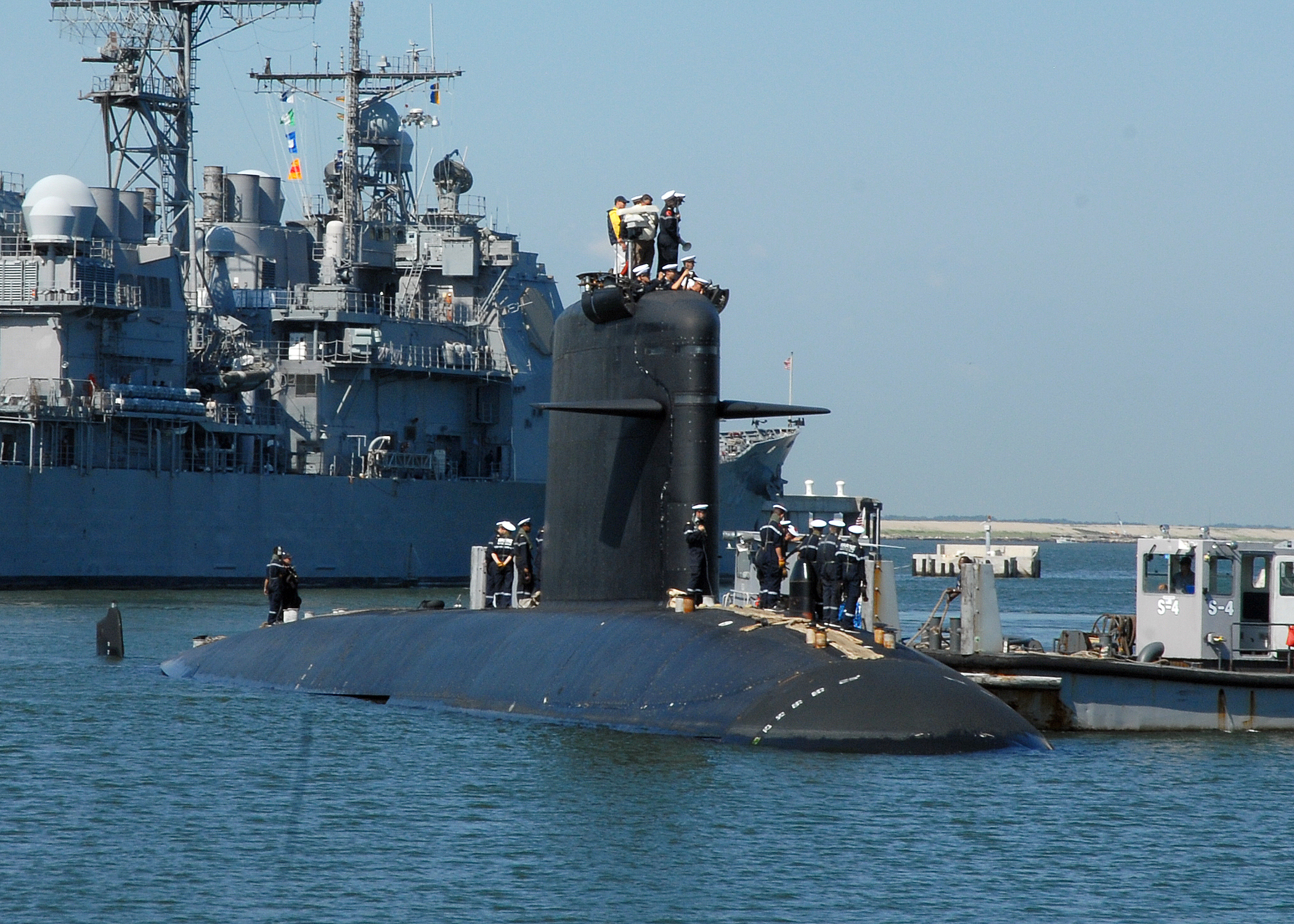 080716-N-8655E-002 NORFOLK, Va. The French nuclear attack submarine Améthyste (S 605) arrives at Naval Station Norfolk after completing patrol operations in the West Indies. Améthyste is making a four-day port call before joining the Theodore Roosevelt Task Group for Joint Task Force Exercise 08.4. starting next week.